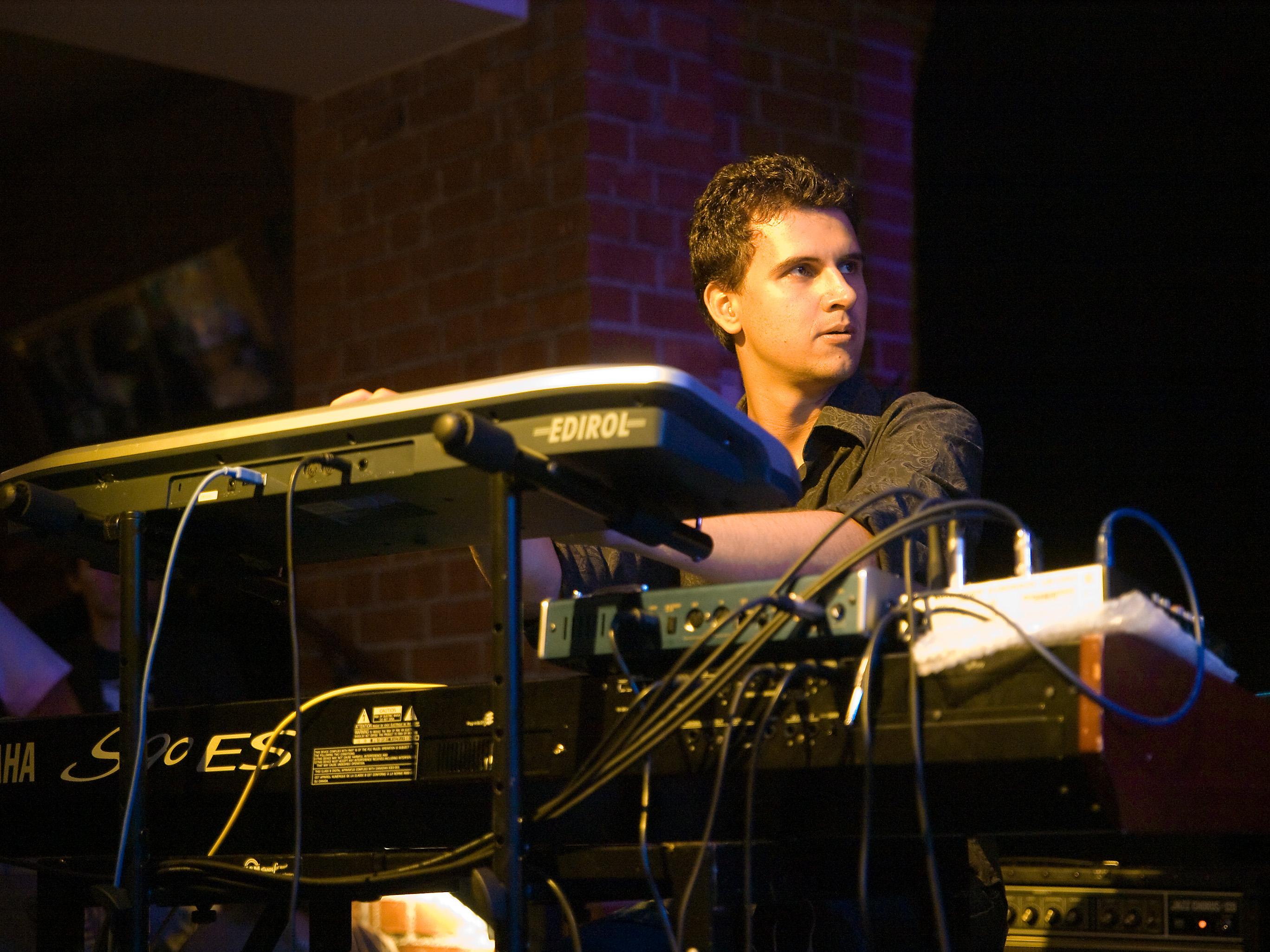 Christian Elsaesser, Jazz pianist; Picture taken in Jazz Club Unterfahrt, Munich/Bavaria